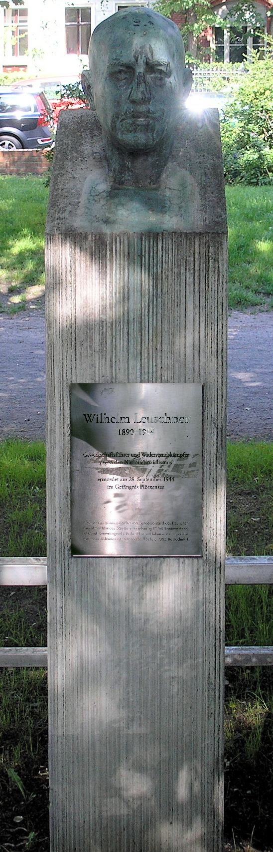 Memorial stone, Wilhelm Leuschner, Leuschnerdamm 33, Berlin-Kreuzberg, Germany Koordinate:52°30′13″N 13°25′1″E / 52.50361°N 13.41694°E